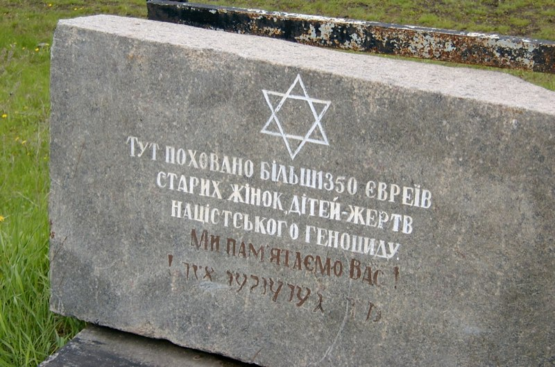 on this site 1500 jews were killed by the eisentzgrupen during the holocaust